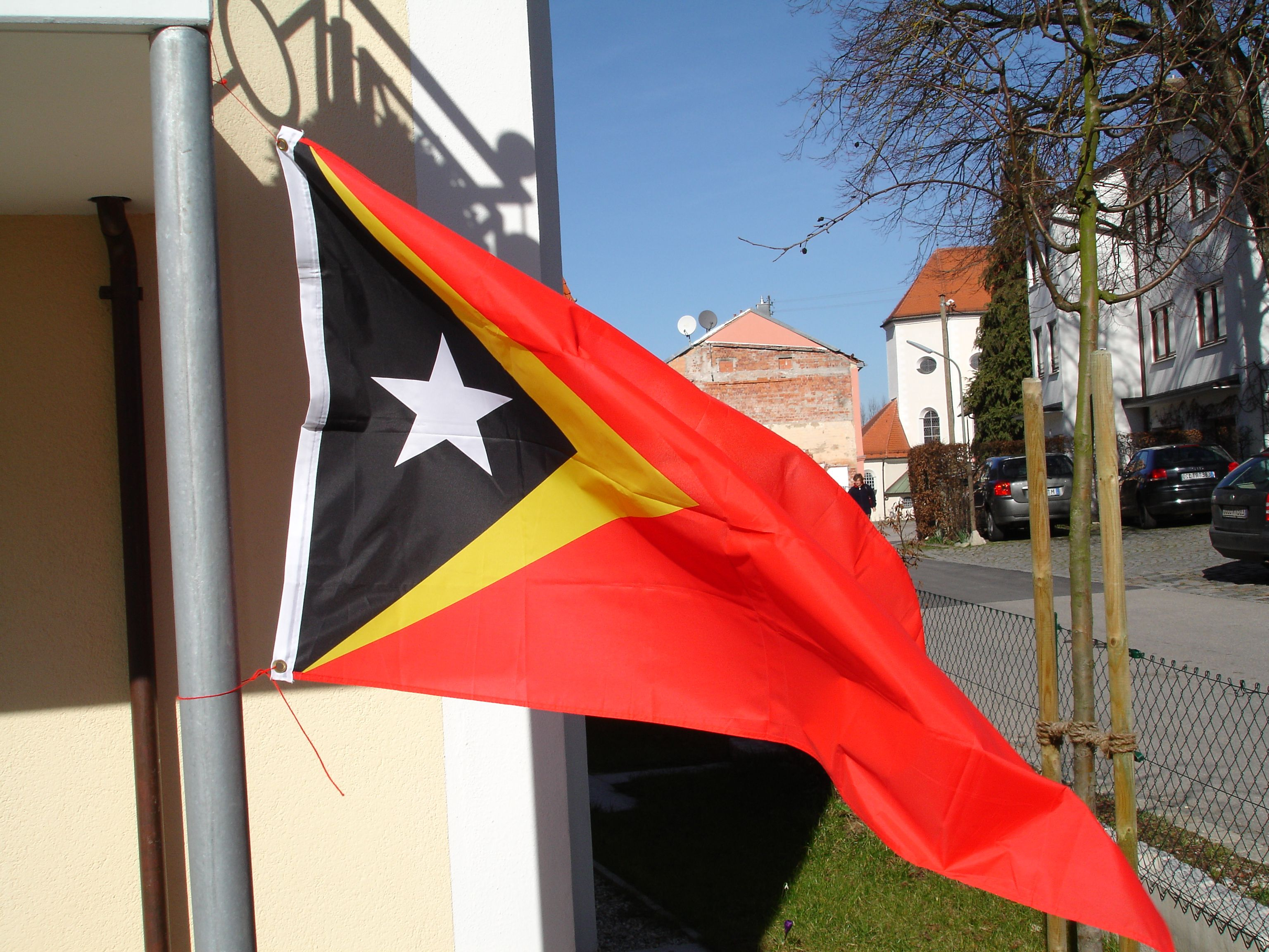 Flag of East Timor with straight star, light yellow and red, 1:2